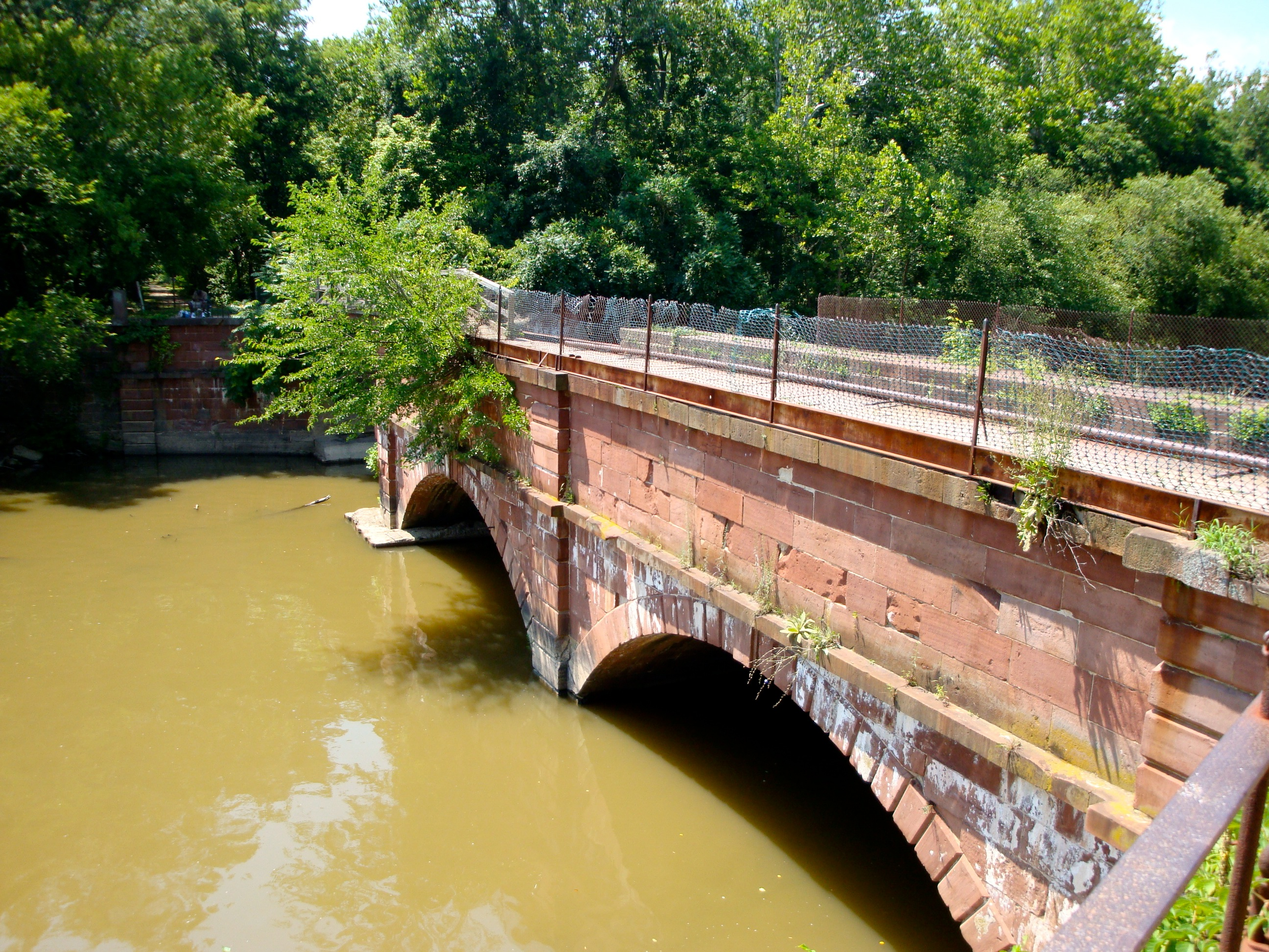 The Seneca Aqueduct, built 1828-1833, carries the C&O Canal over Seneca Creek. It is a unique structure: the only aqueduct on the C&O made of Seneca red sandstone, and the only aqueduct that is also a lock (Lock 24, Riley's Lock).